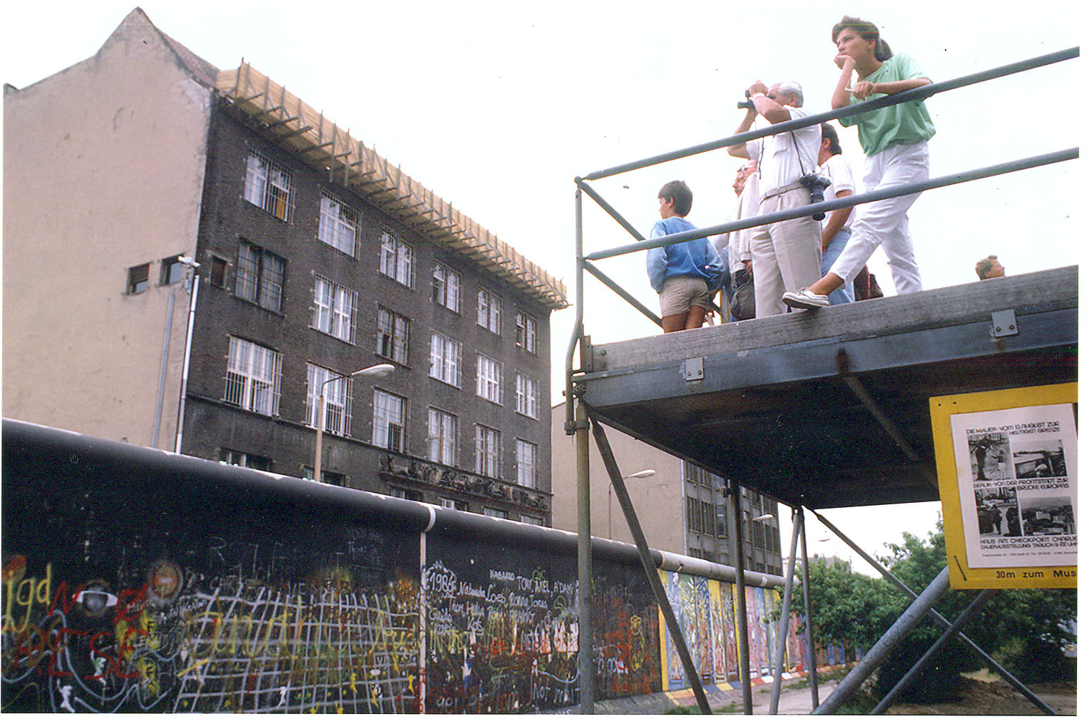 Berlin Wall, 1986, a view from the West Berlin side on the 25th anniversary of the Wall. Photo by Nancy Wong